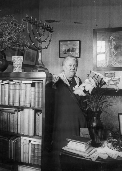 Photograph of the British-born Danish women's rights activist Helen Clay Petersen (1862-1950)